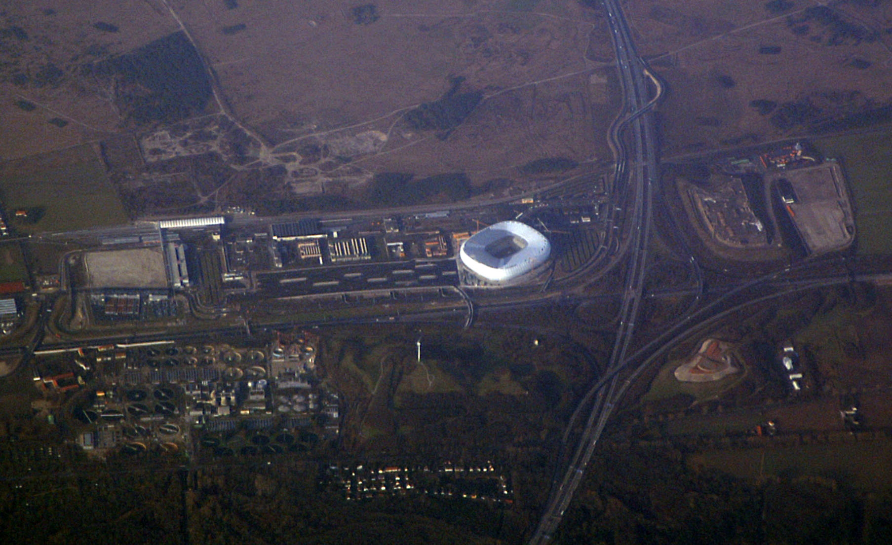 aerial view of the Allianz Arena in Munich with the junction München-Nord (A 9 and A 99)